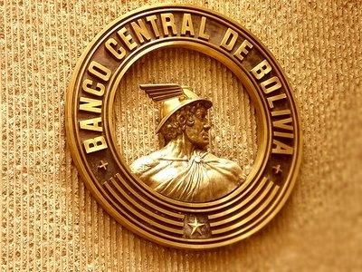 Took the picture from the building of the BCB.